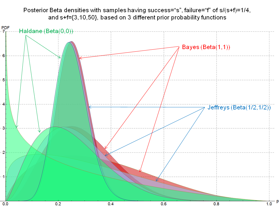 Beta distribution for 3 different prior probability functions, skewed case - J. Rodal